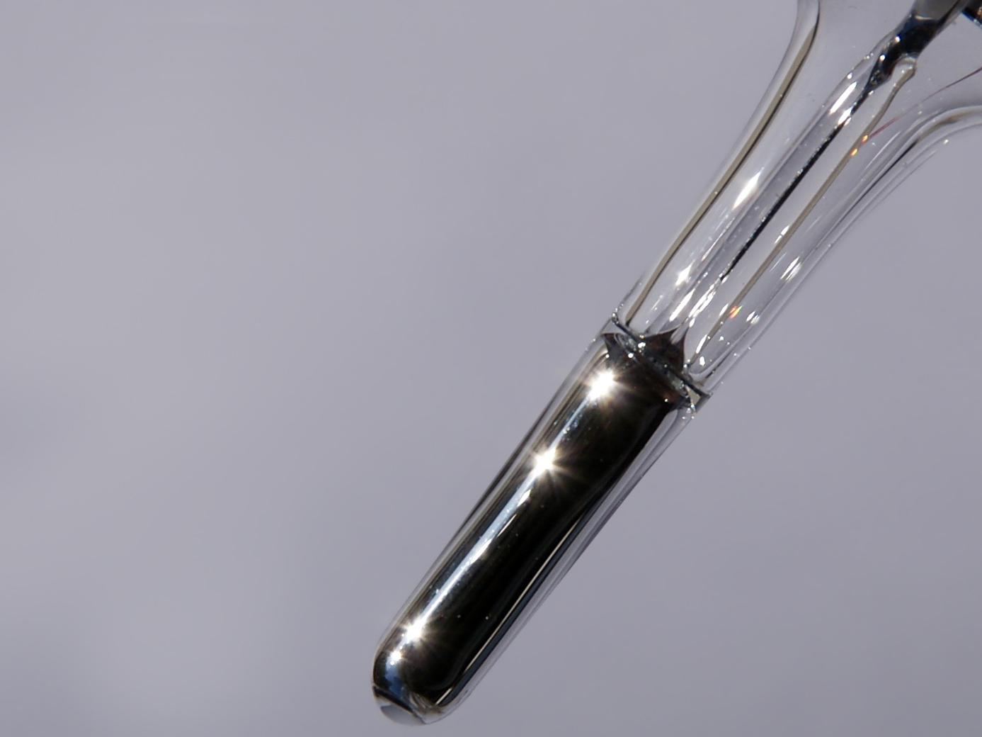 Mercury in an old medical thermometer.